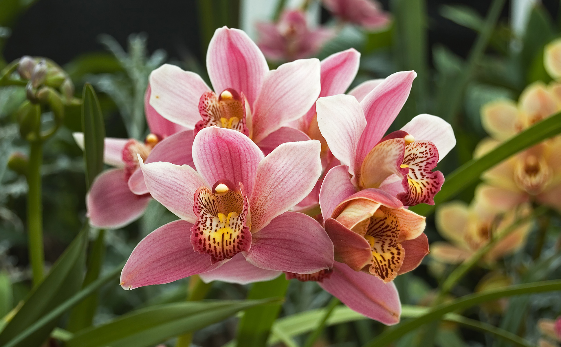 Picture of a Boat Orchid (Orchidaceae Cymbidium) at the Royal Tasmanian Botanical Gardens